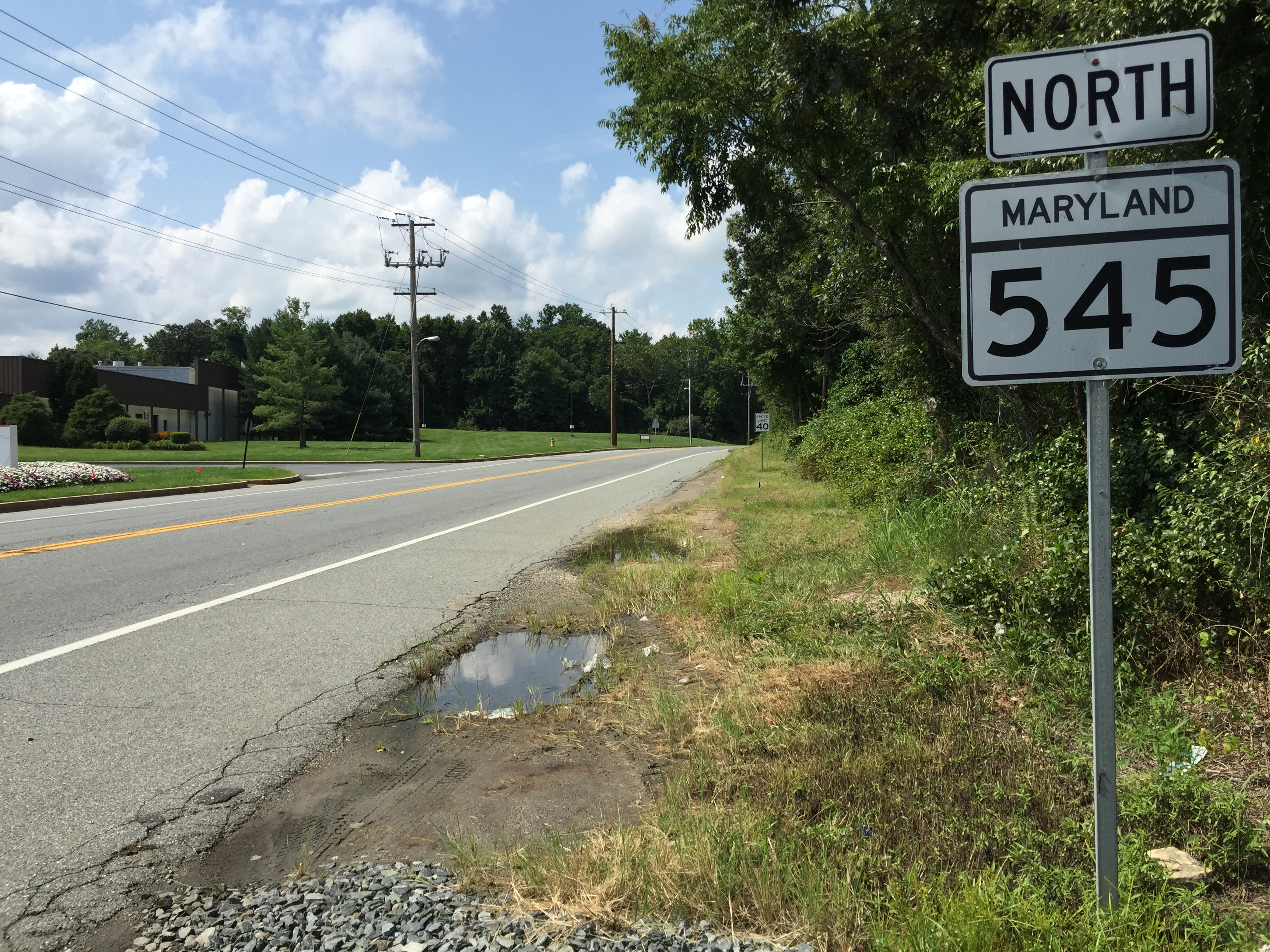 View north along Maryland State Route 545 (Blue Ball Road) at Maryland State Route 279 (Newark Avenue) in Elkton, Cecil County, Maryland